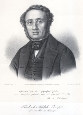 Friedrich Adolph Philippi, portrait by W. Ullrich